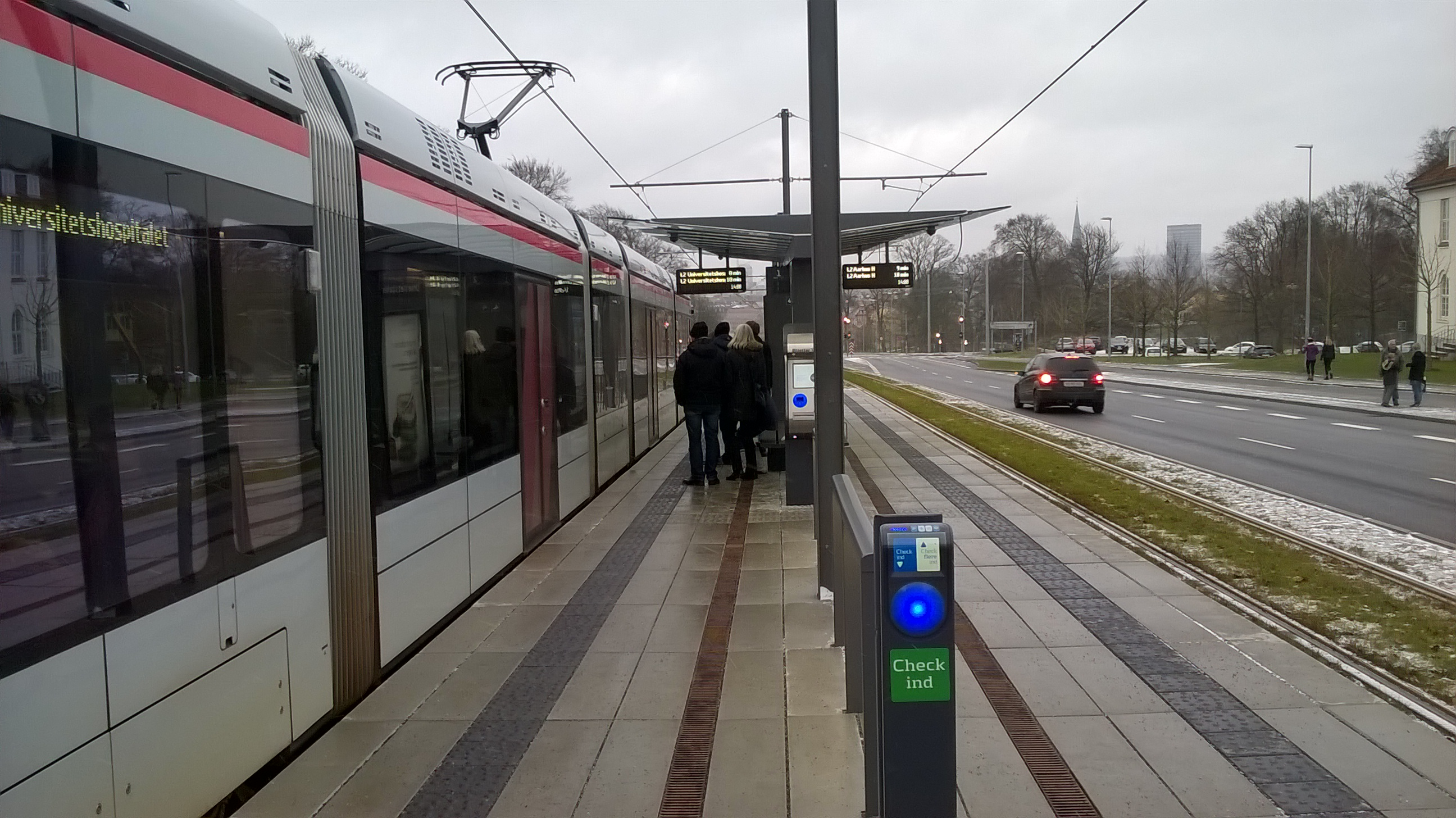 Universitetsparken Station perron